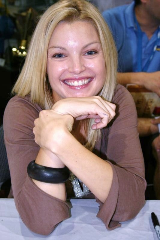 American actress Clare Kramer at ComiCon 2006.